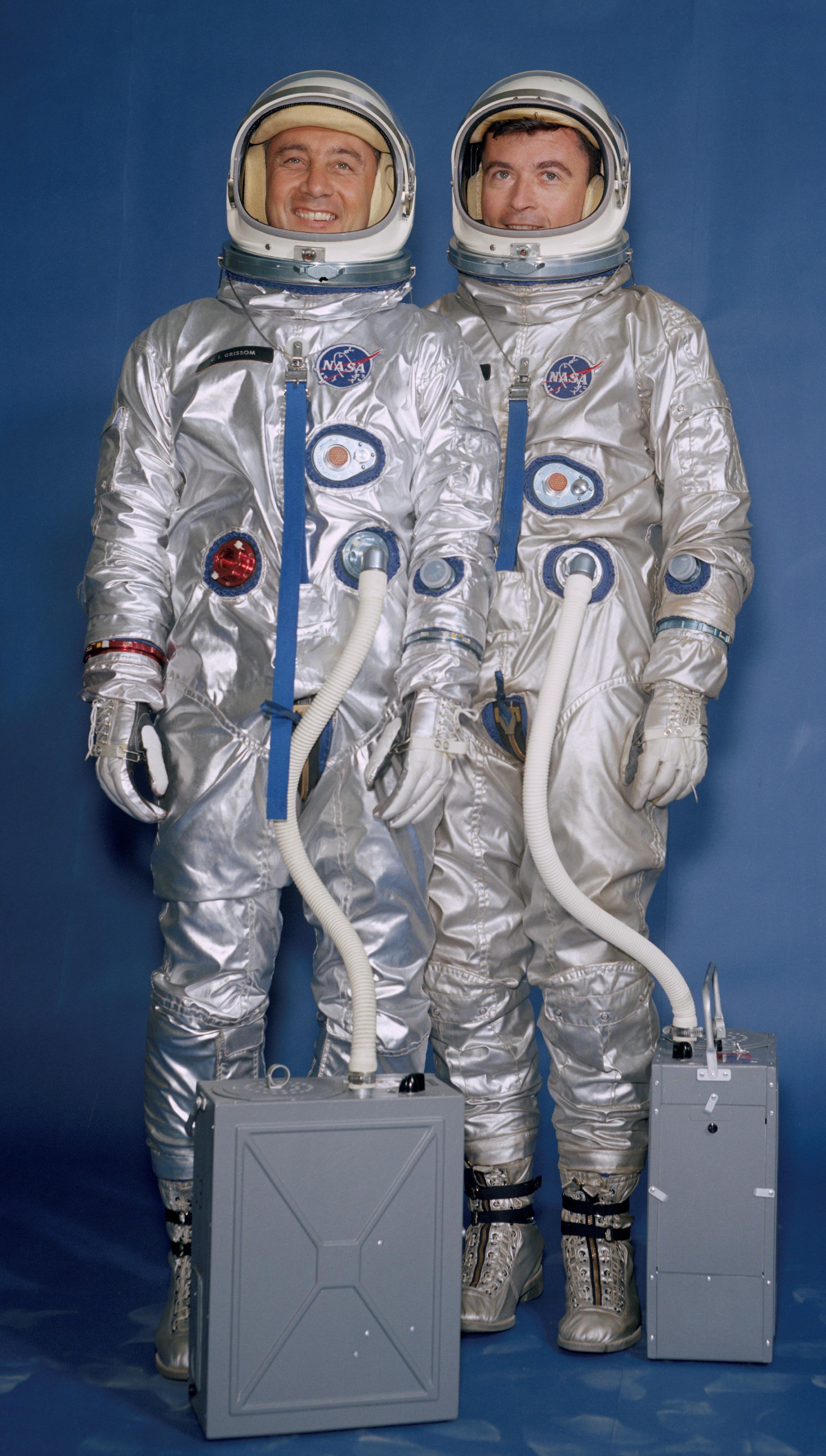 "Gemini III crew members Virgil I. "Gus" Grissom (left) and John W. Young are wearing their spacesuits, helmets and portable air conditioners." Note: These suits weren't used on the mission, the flown suits had a white outer layer.